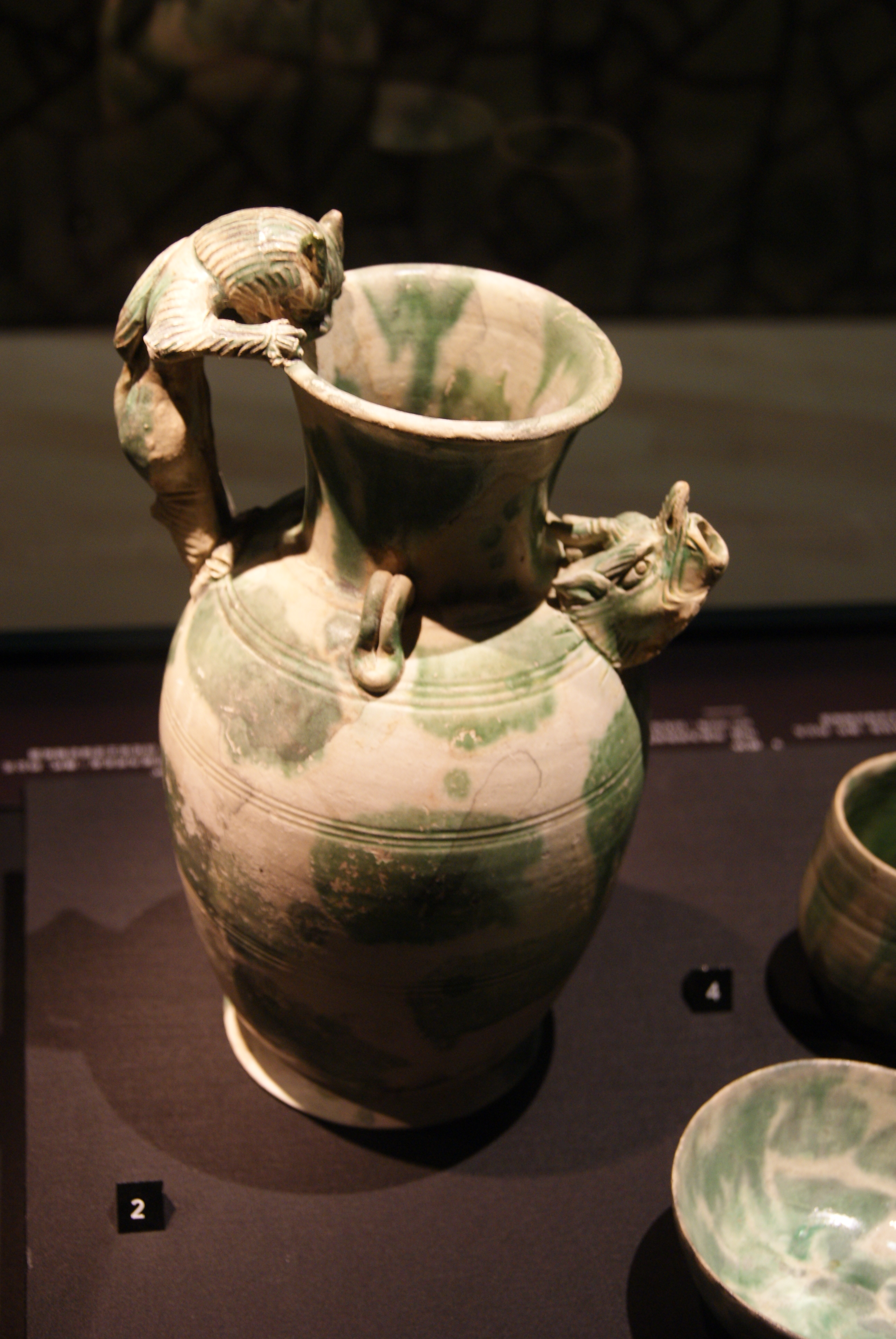 Part of the collection of artifacts from the Belitung shipwreck owned by the Sentosa Leisure Group and the Government of Singapore, photographed while displayed at an exhibition called Shipwrecked: Tang Treasures and Monsoon Winds at the ArtScience Museum, Marina Bay Sands, Singapore, from 19 February 2011 to 31 July 2011.